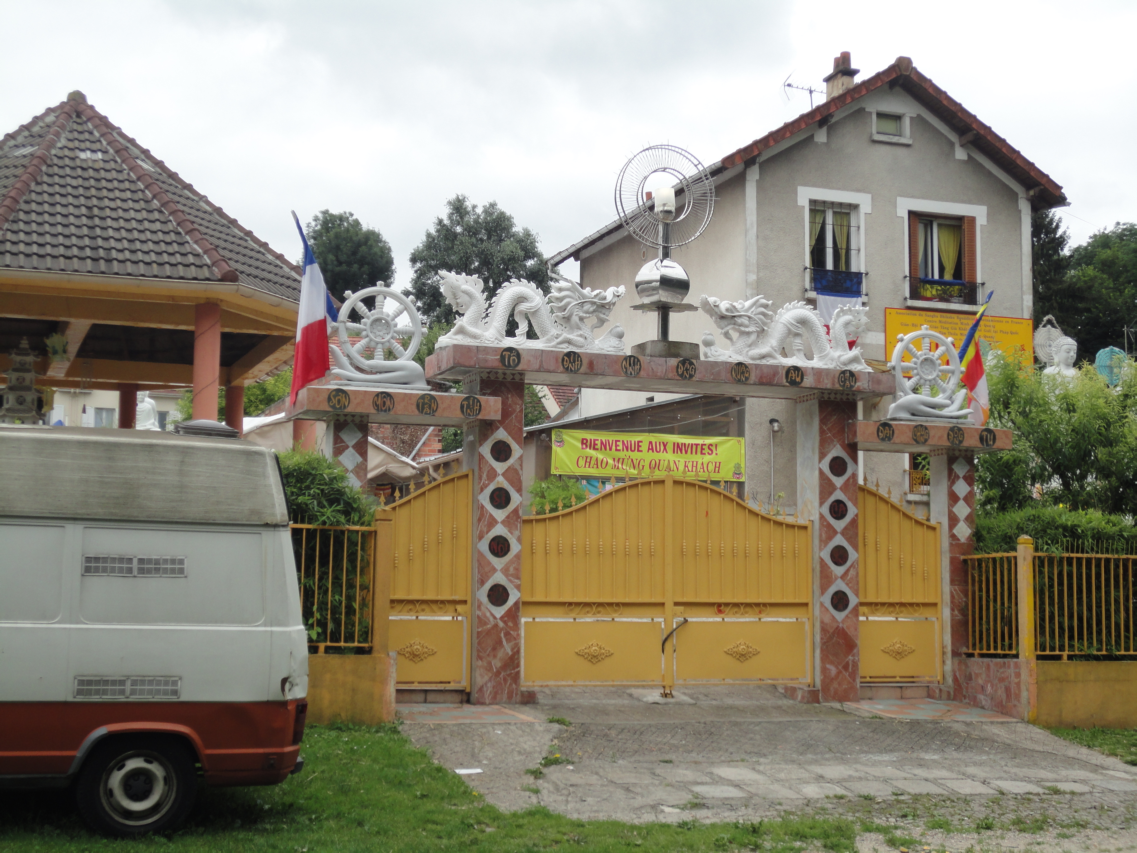 Vietnam bouddhist center in Torcy